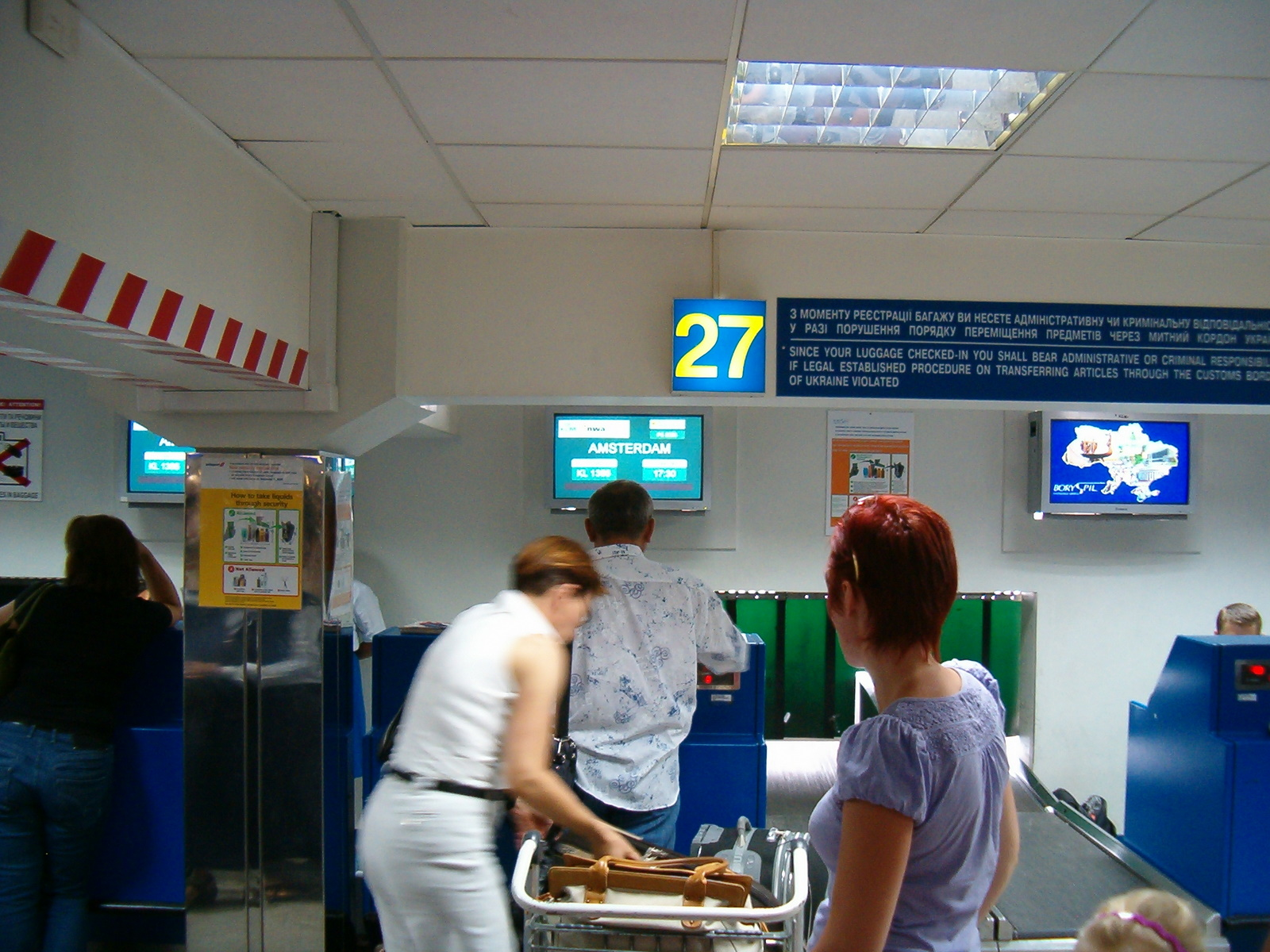 Boryspil International Airport